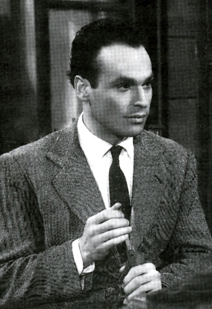 photo from the Italian magazine Cinema (1941)